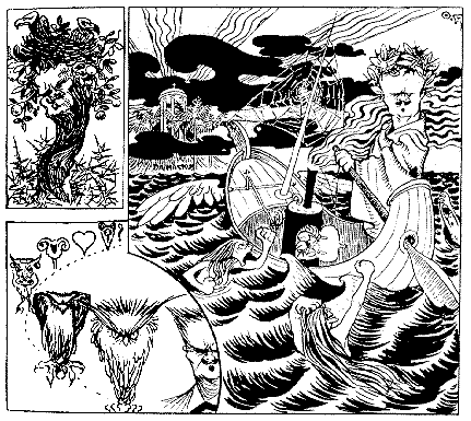 August Strindberg portrayed by a naturalist, a Darwinist, and a symbolist.